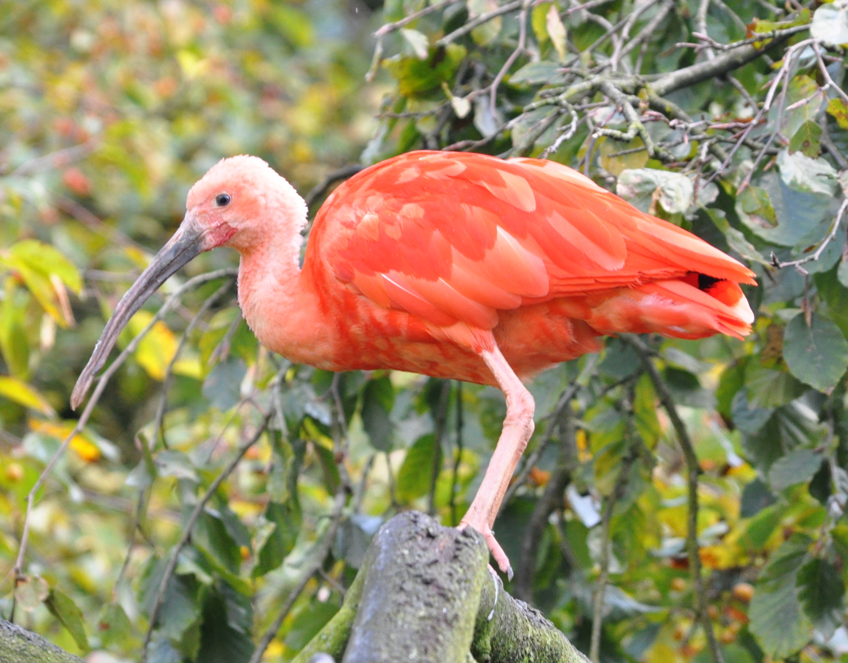 Scarlet Ibis (Eudocimus ruber) in the Walsrode Bird Park, Germany.